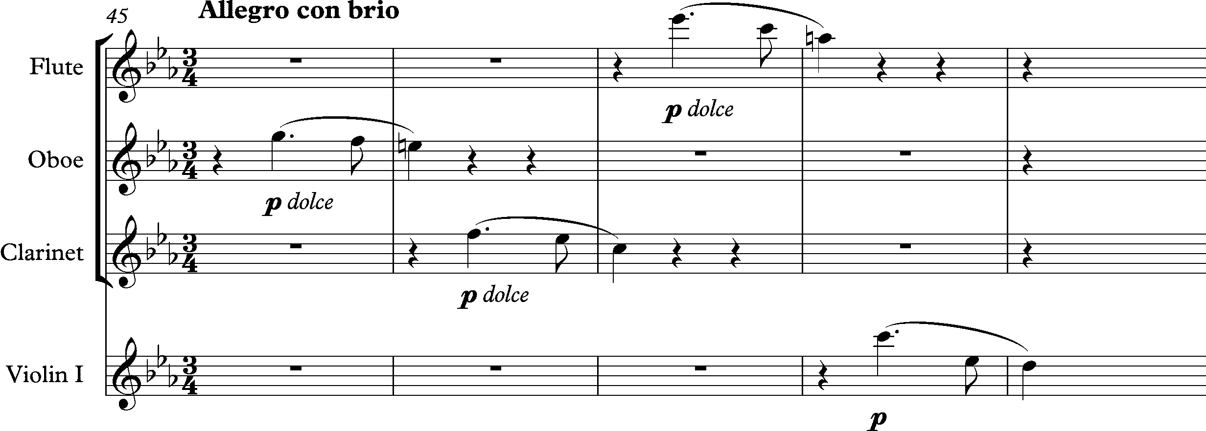 Beethoven, Symphony No. 3, first movement, bars 45-49